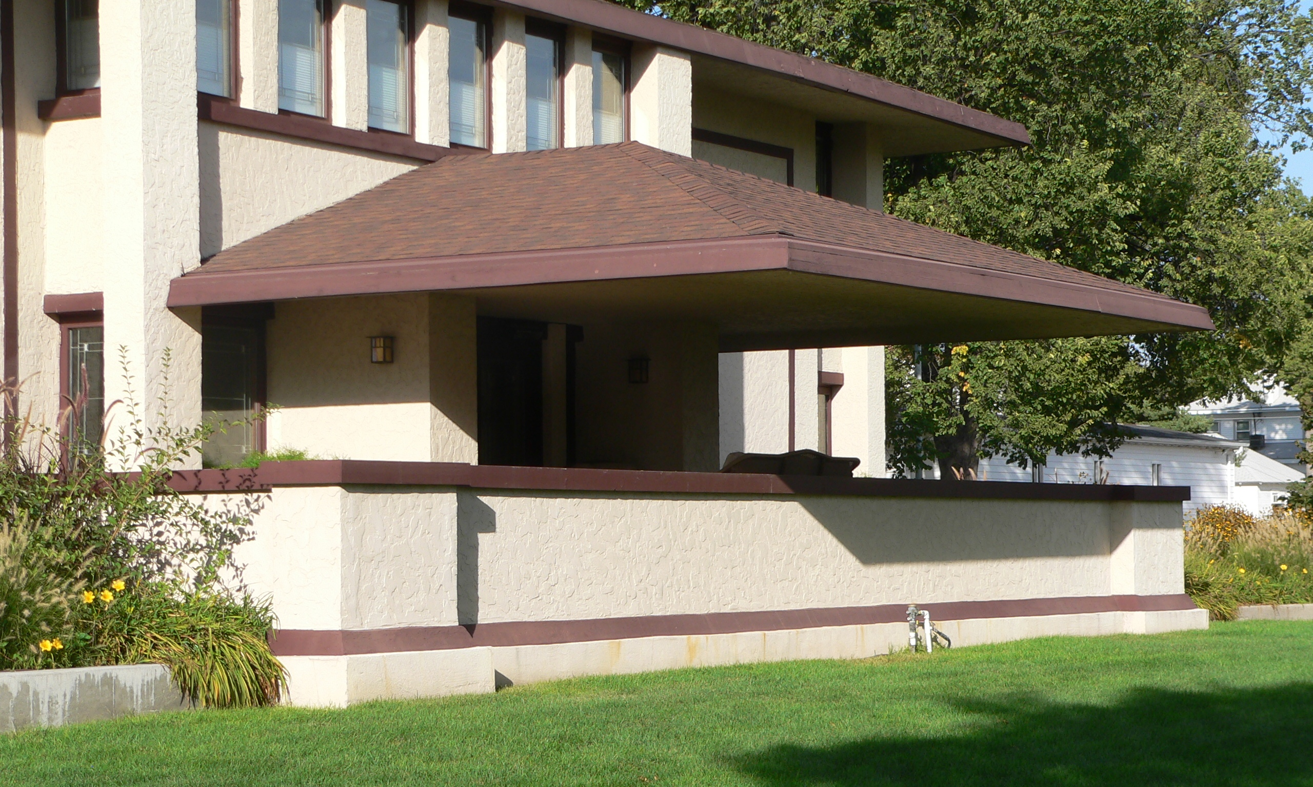 Harvey P. Sutton House in McCook, Nebraska: veranda on south side of house, seen from southwest.